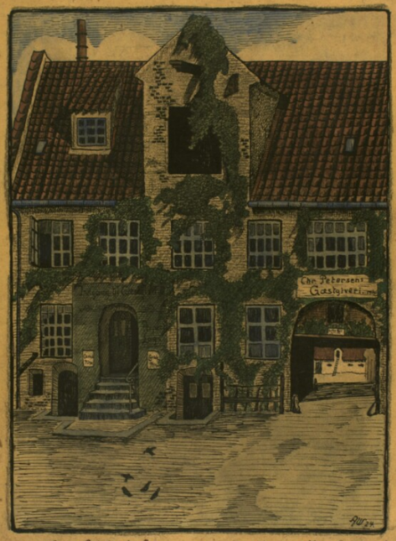 Drawing from the courtyard of Hotel Tre Hjorter with the rear side of the gateway facing the street at Vestergade No. 12.